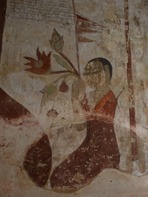 Fresco in Sulamani Temple